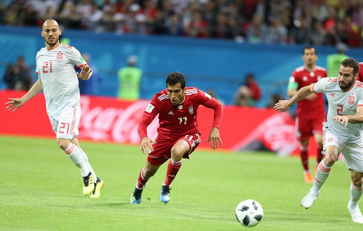 Iran and Spain match at the FIFA World Cup 2018